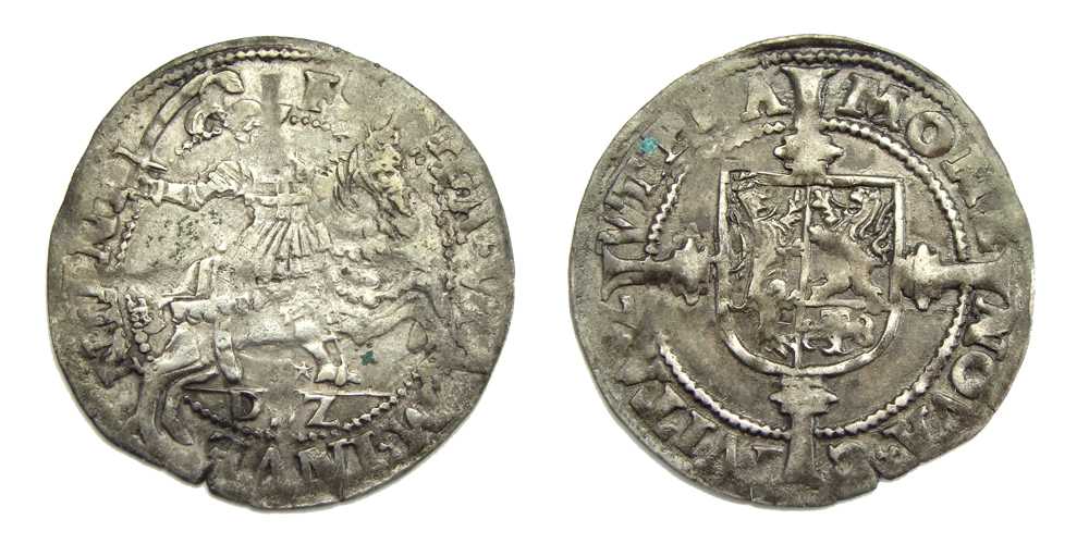 Low Countries, Gelderland, Zutphen. 1/4 Snaphaan or Peerdeken